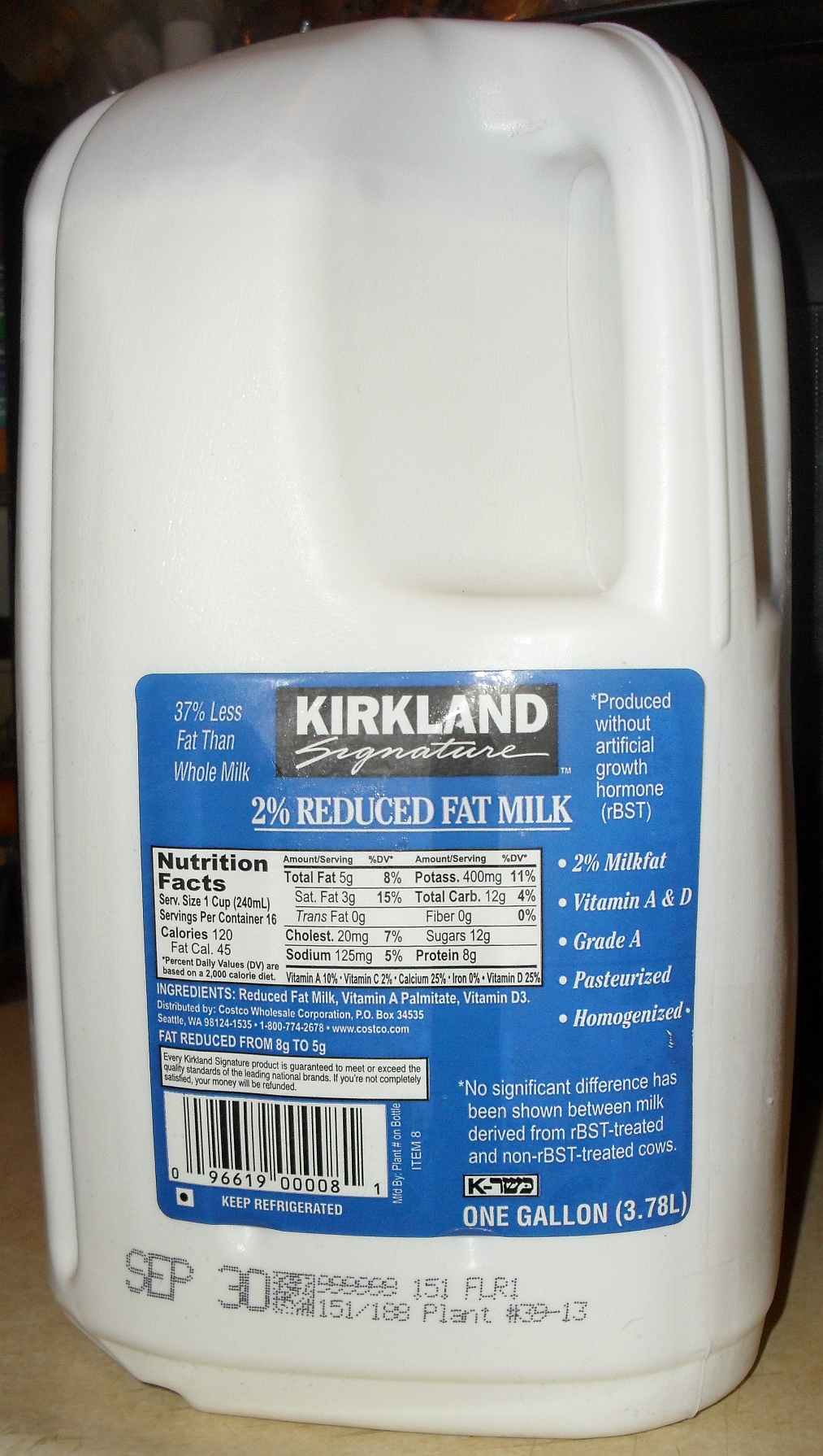 A rectangular Kirkland Signature 2% milk jug, sold as the house brand in Costco stores and used to present how milk is sold in the United States.